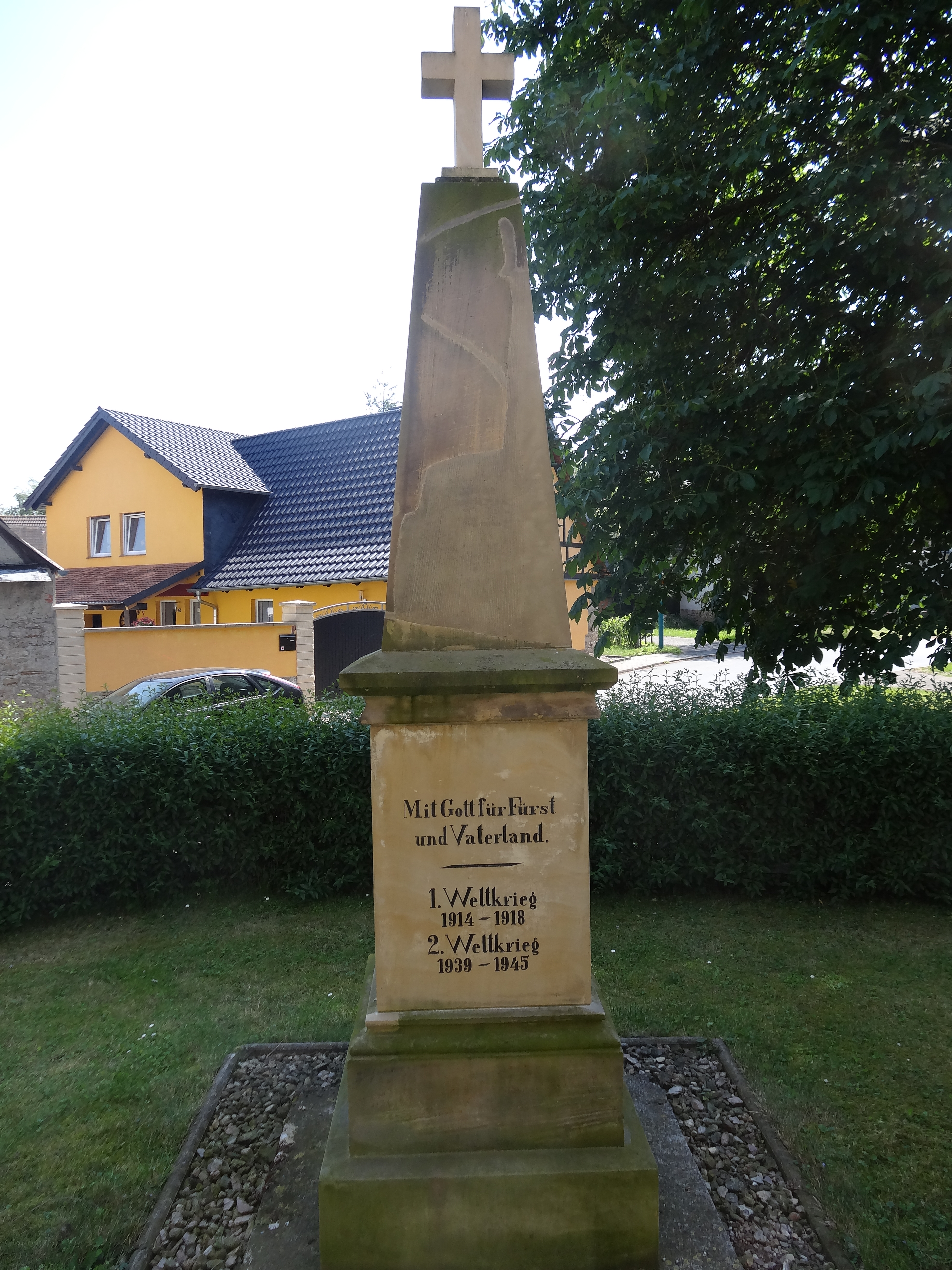 War memorial in Hammerstedt, Thuringia, Germany